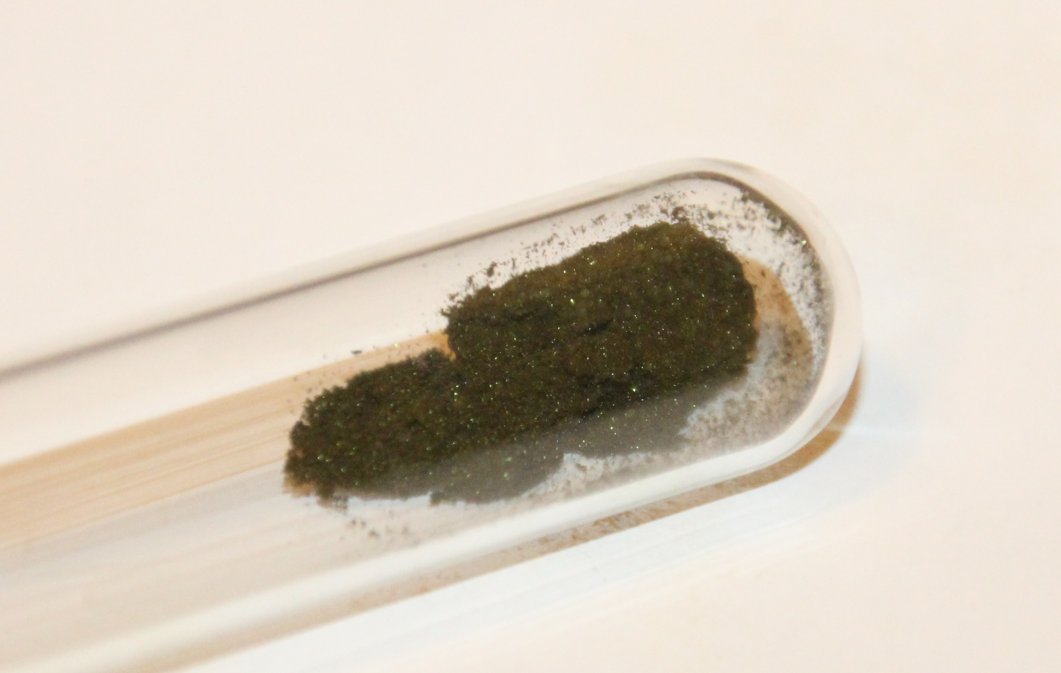 Green crystals of Thymol Blue